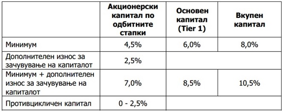 Level of the capital required to cover risks in percents